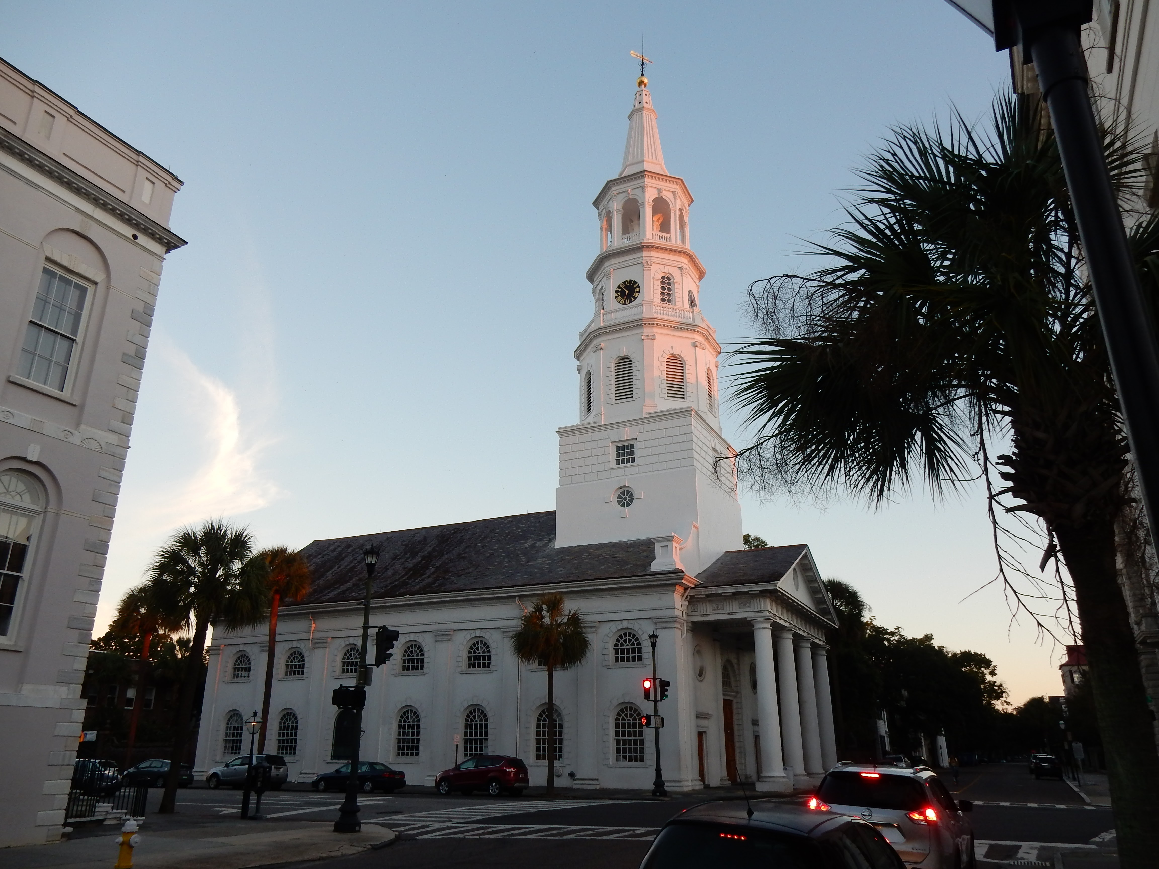 Charleston, SC, USA